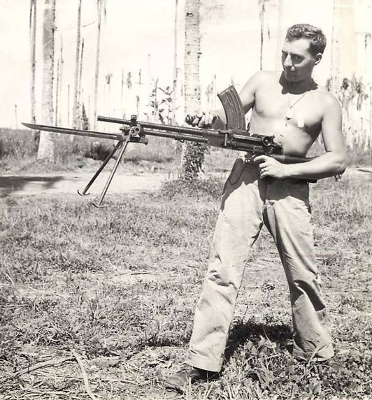 U.S Marine posing with Type 99 in Saipan